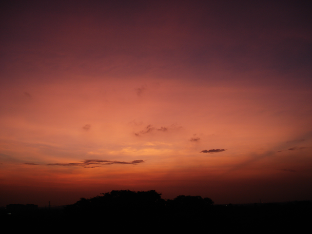 Dusk over St.Thomas Mount in Chennai